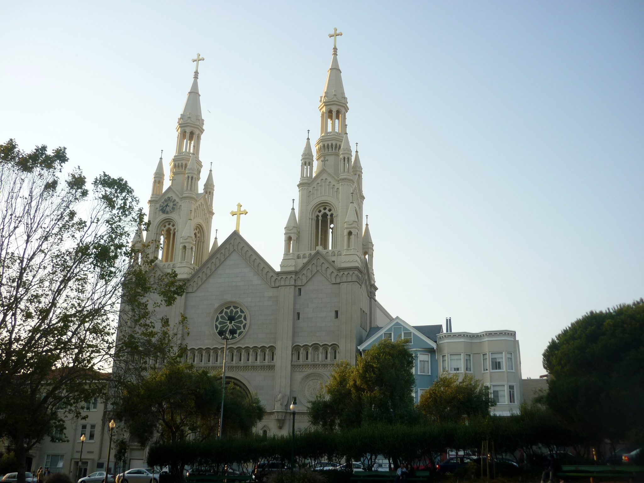 Saints Peter and Paul, San Francisco